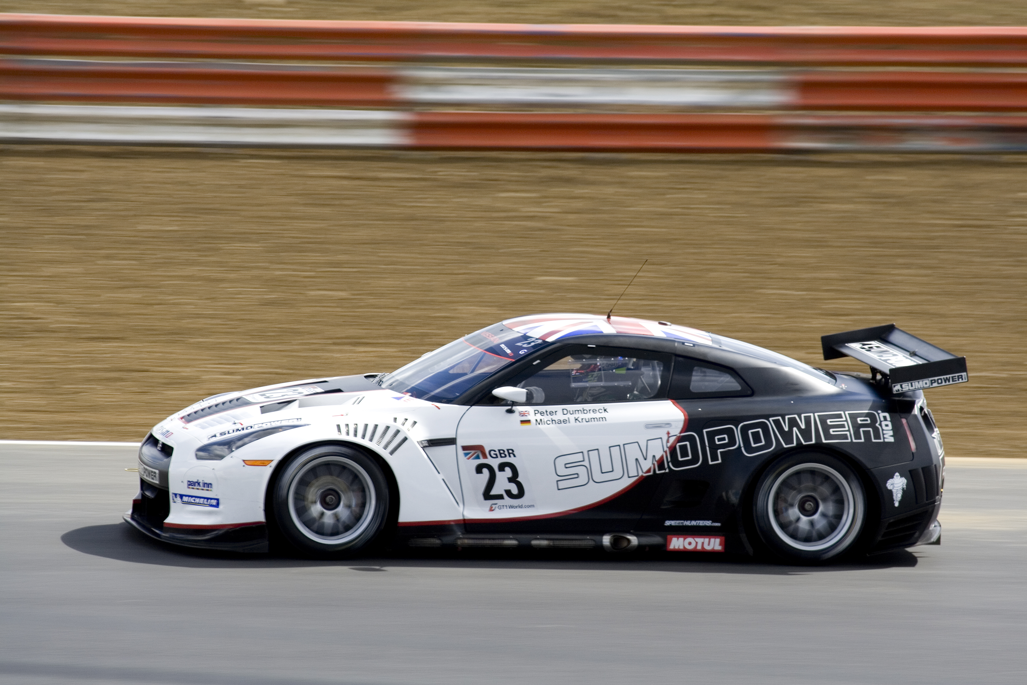 FIA GT1 Qualifying - Nissan GTR (SUMO Power GT)